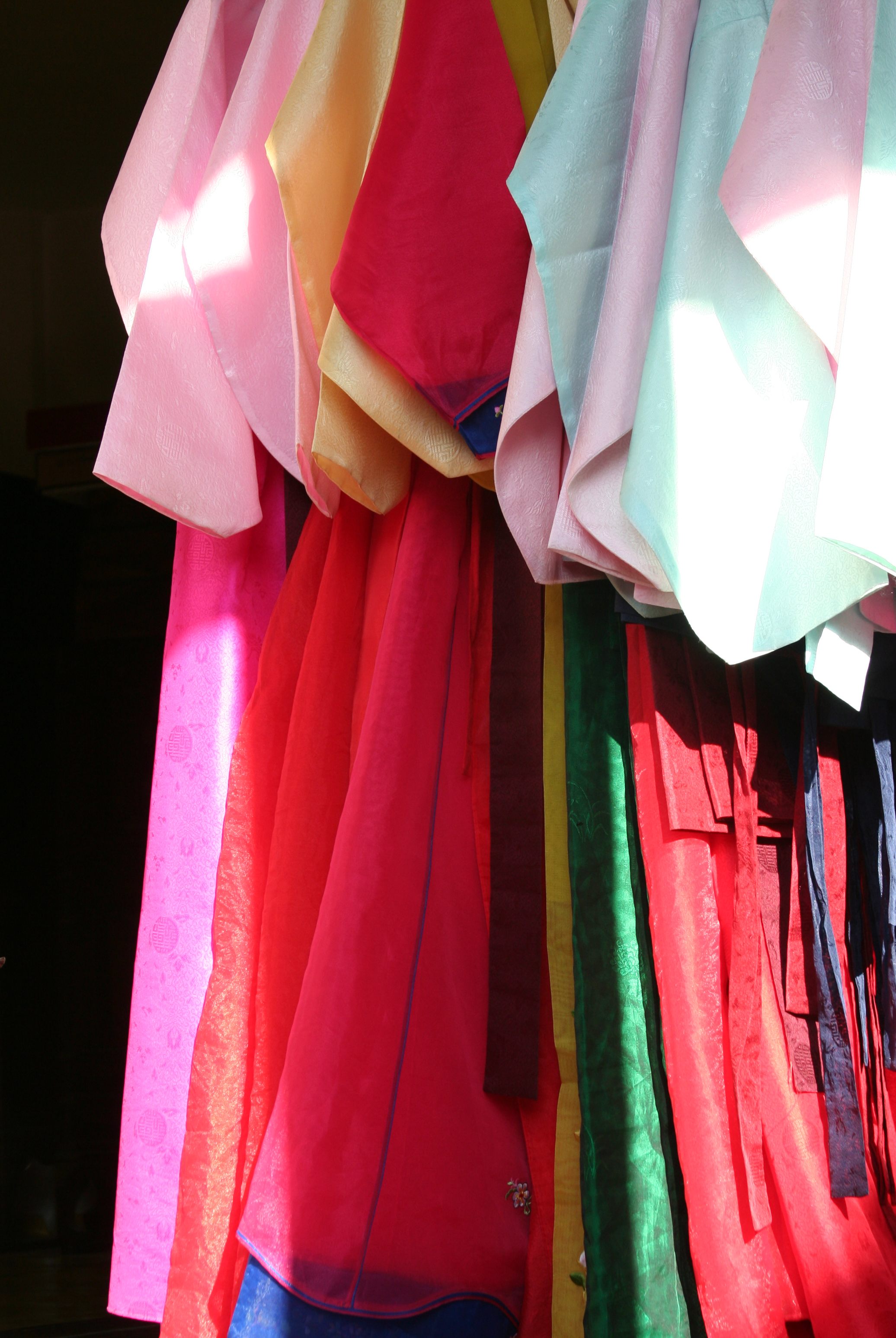 Colourful traditional Korean clothes - hanbok.